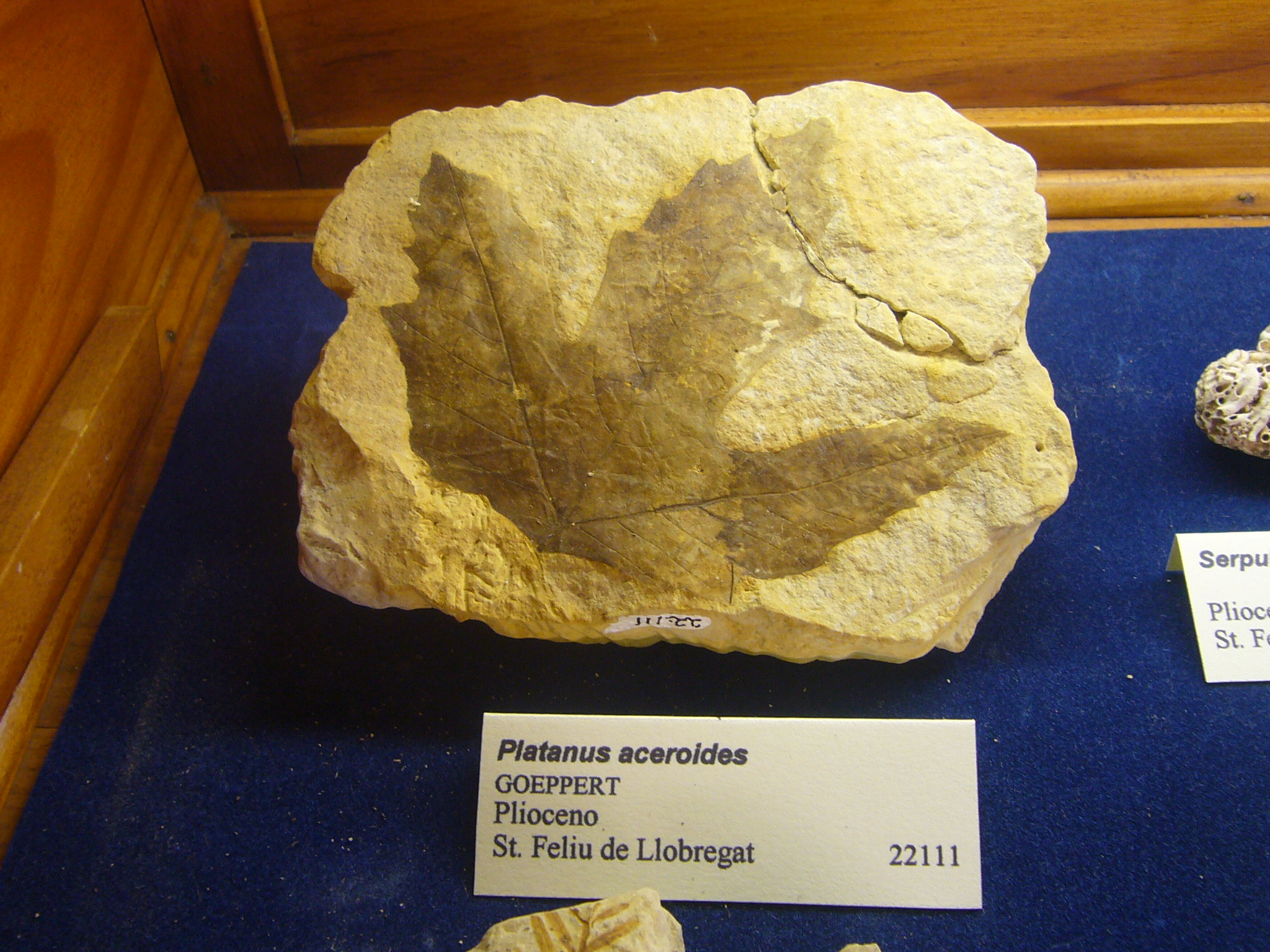 Platanus aceroides, from Sant Feliu de Llobregat. Pliocene Fossil. Collection of paleontology of the Geological Museum of the Barcelona Seminari (Museu Geològic del Seminari de Barcelona).